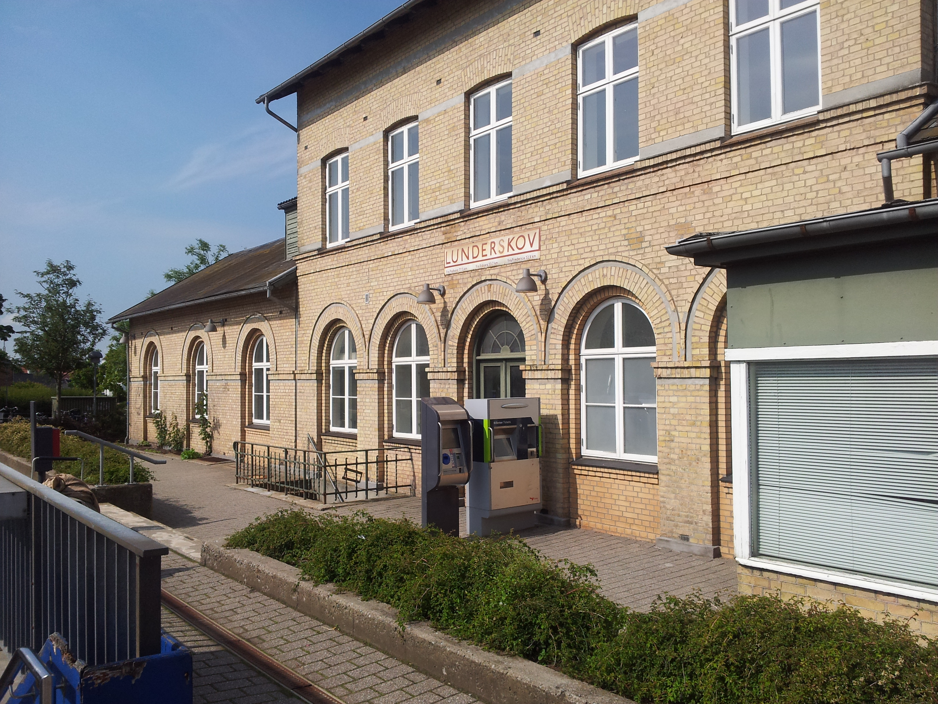 The station building in Lunderskov, Denmark.